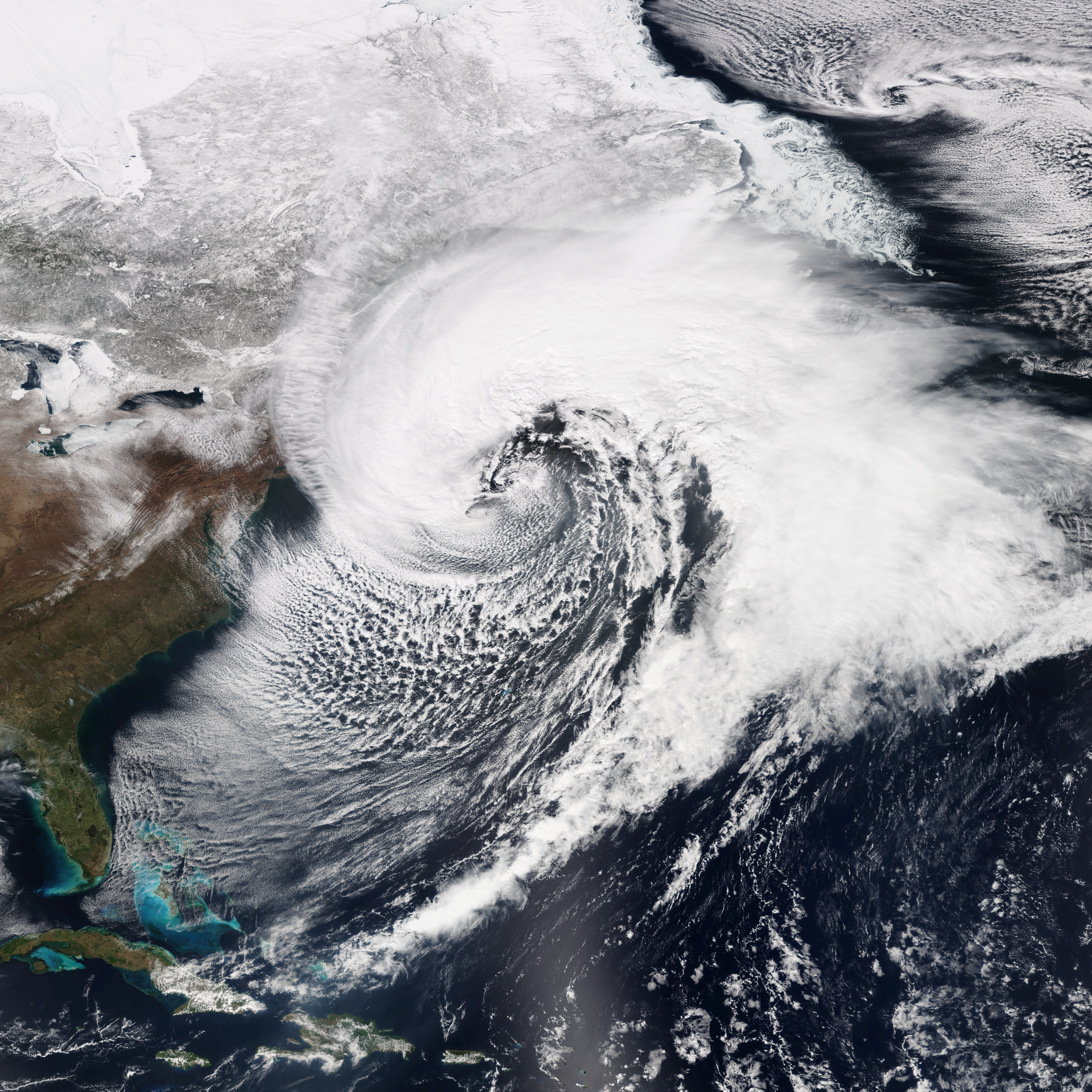 A massive and powerful nor'easter affecting the Northeastern United States on March 26, 2014, at peak intensity.